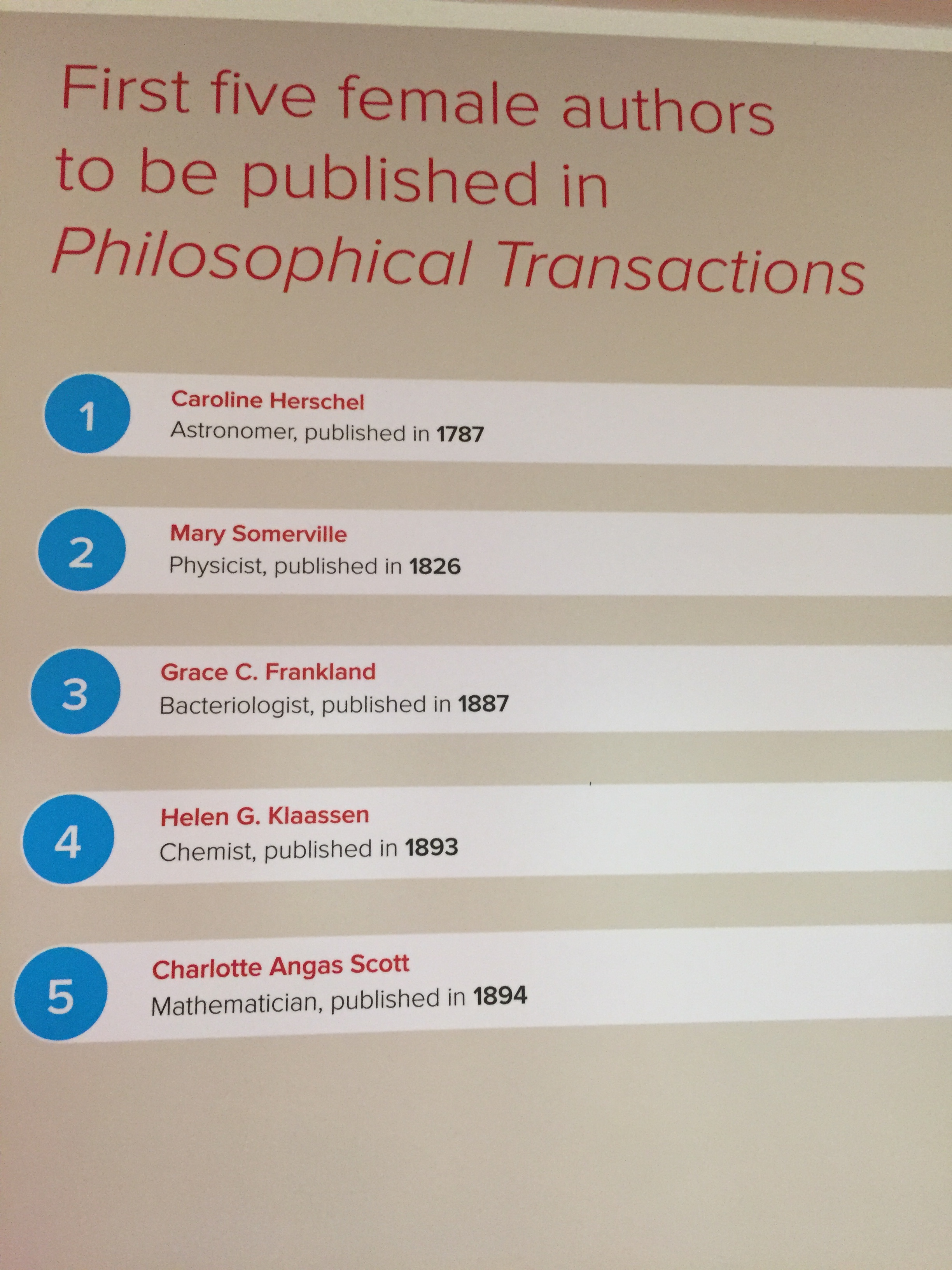 The first 5 women to be published in the Philosophical Transactions, the Royal Society. Photo taken at the Royal Society, London on 9 April 2015. Part of the exhibition, "Publishing 350 - from foundation to future: Celebrating 350 years of scientific publishing at the Royal Society."